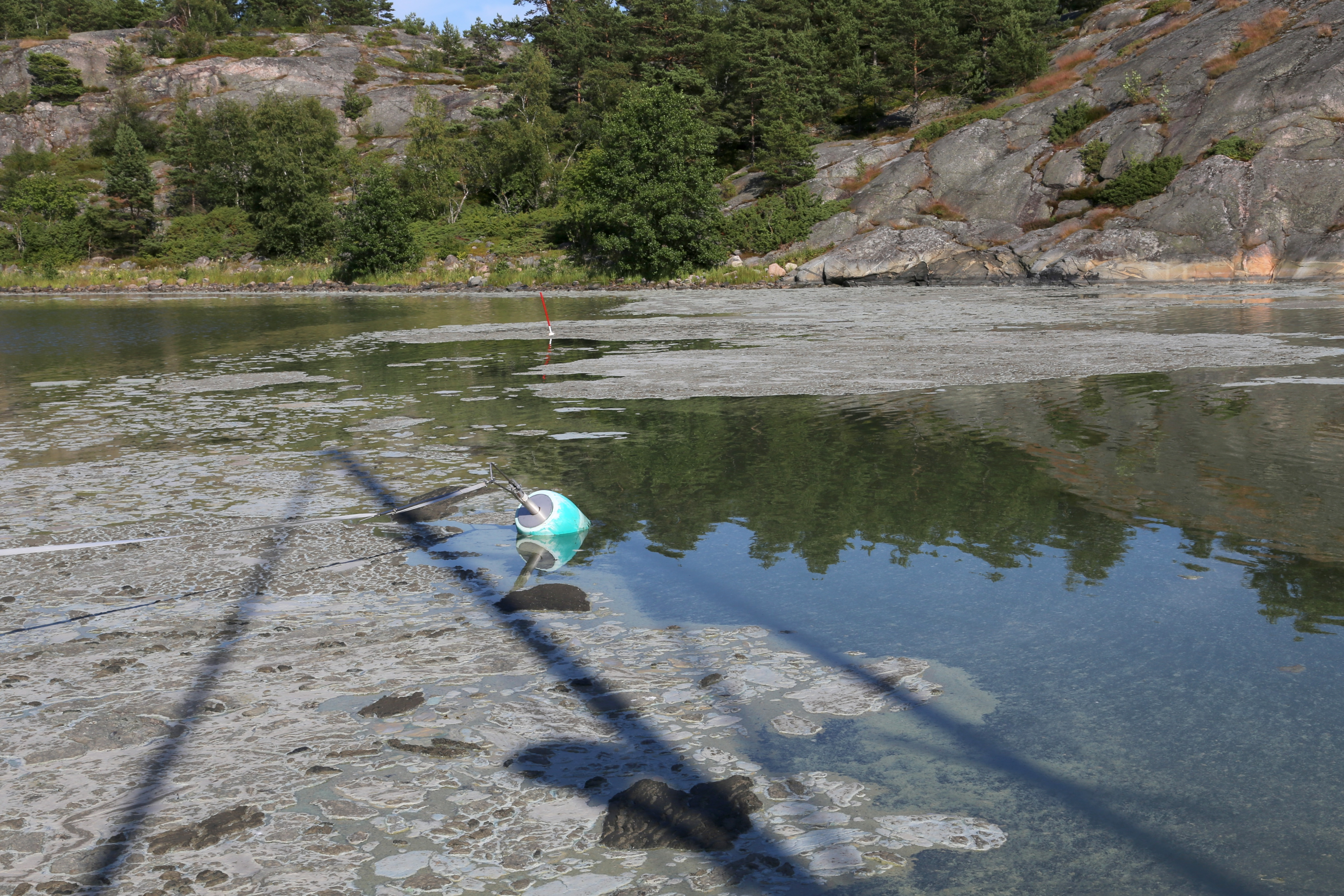 The situation was particularly bad in some protected bays